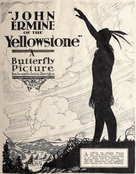 Advertisement for the American western film John Ermine of Yellowstone (1917), on page 5 of the October 20, 1917 The Moving Picture Weekly.